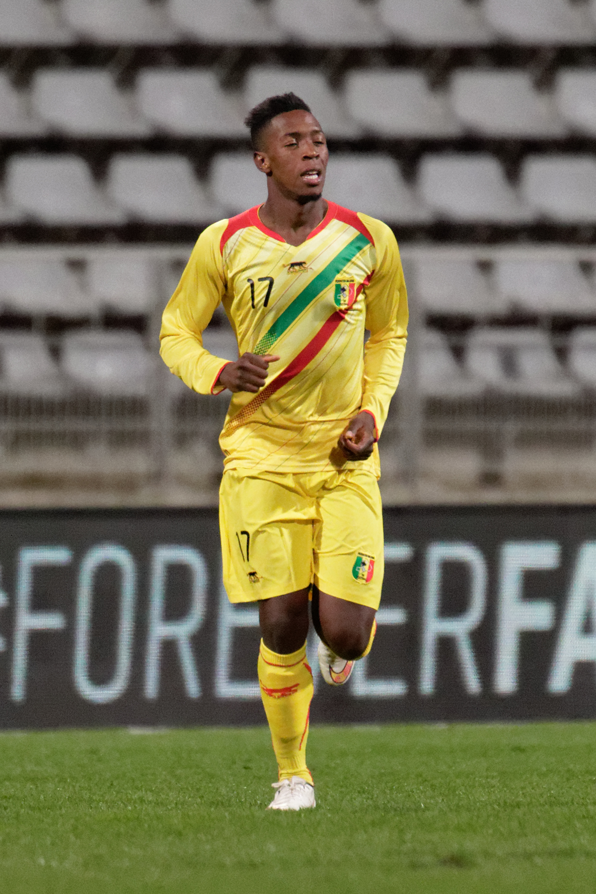 Mali vs Ghana, exhibition game at Paris, 31st March 2015.